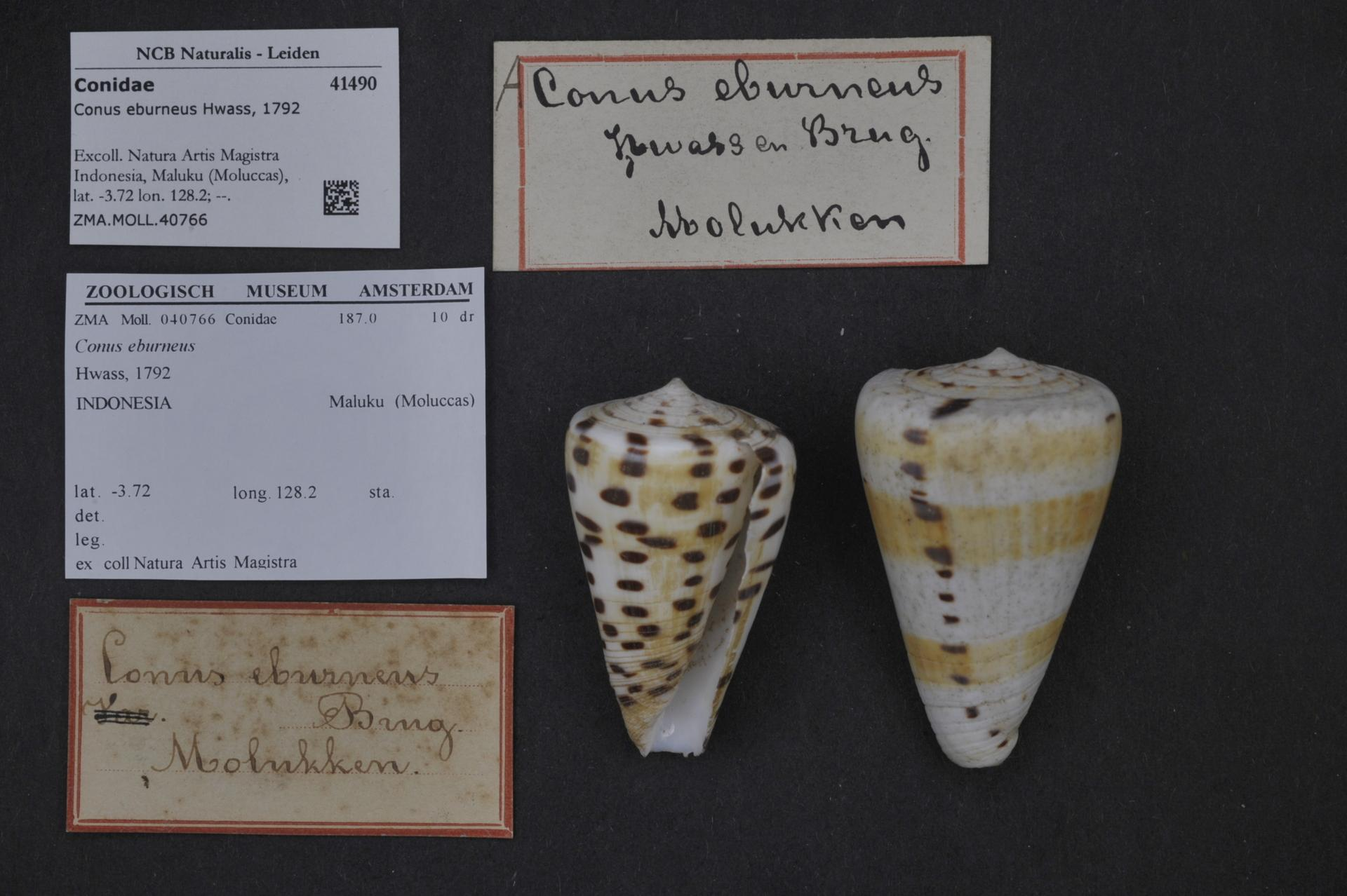 Conus eburneus Hwass, 1792